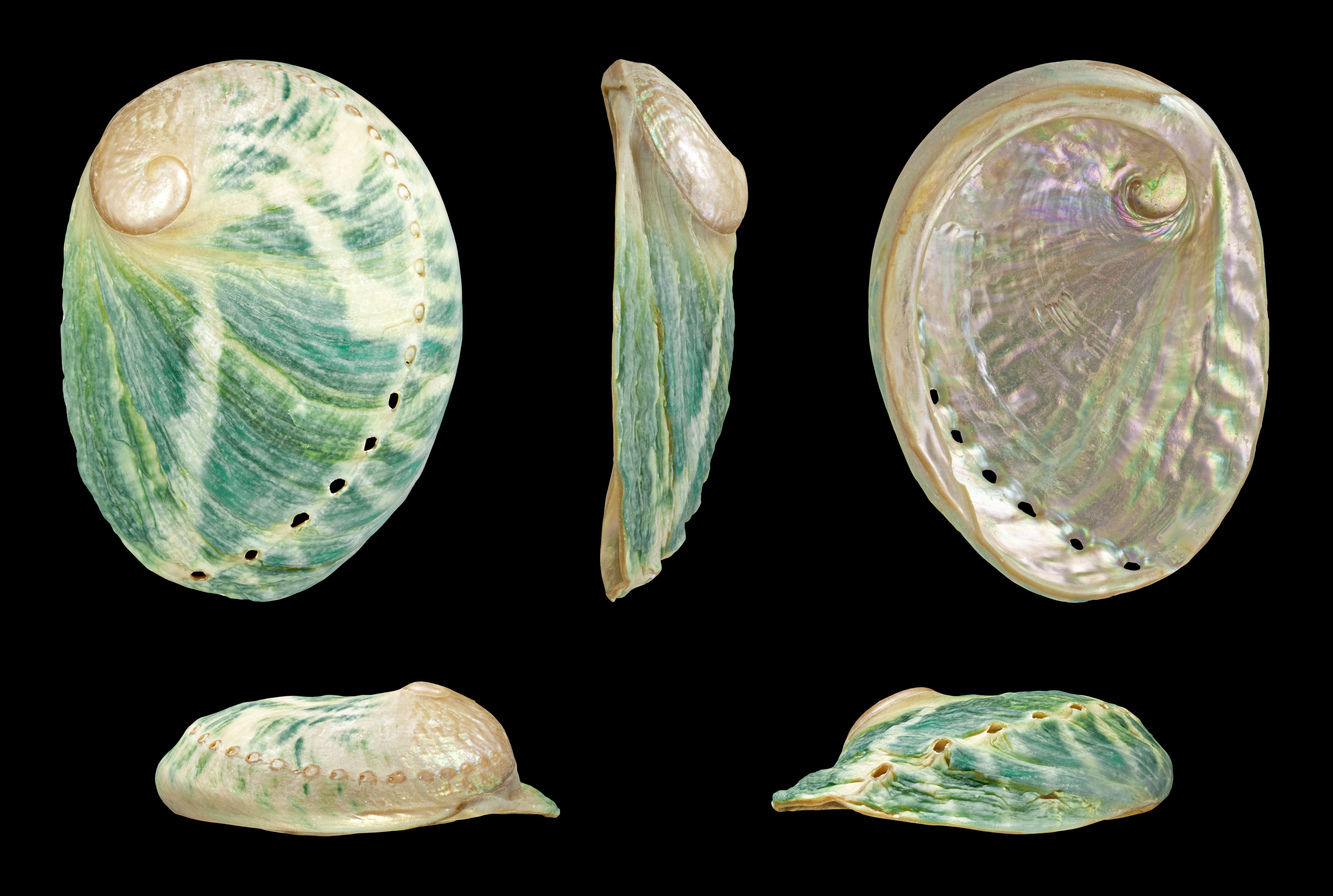 Haliotis laevigata Donovan, 1808, Green Lip Abalone, green form; Length 7.5 cm; Originating from South Australia, Australia; Shell of own collection, therefore not geocoded.